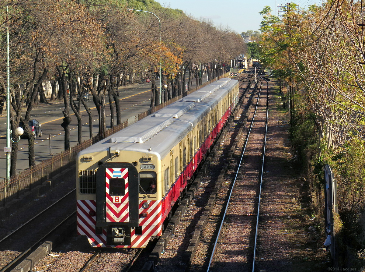 An Urquiza Line EMU leaving Villa Ortúzar station. The train is painted in the original Ferrocarriles Argentinos livery.